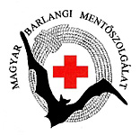 Logo of the Hungarian Cave Rescue Service